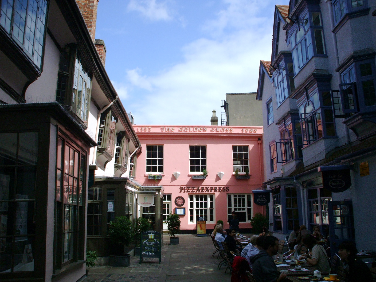 The Golden Cross shopping centre, Oxford, England.